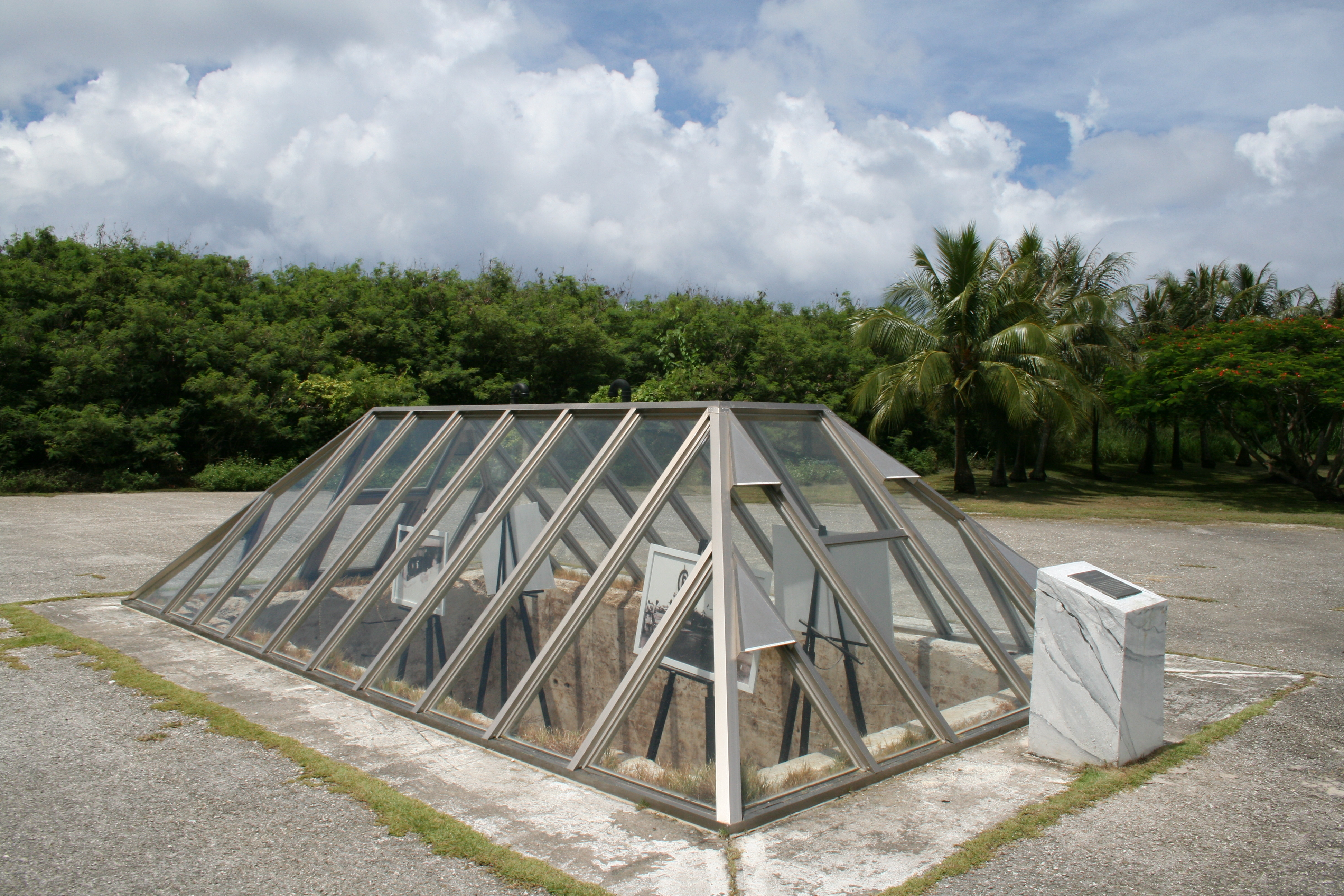 No. 1 Atomic Bomb ("Little Boy") loading pit, North Field (Tinian), 27 August 2008